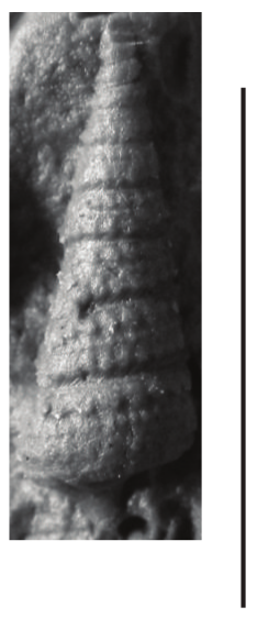 Black-and-white photo of abapertural view of paratype Potamides archiaci PG/K/Cr 47. Scale bar is 10 mm.